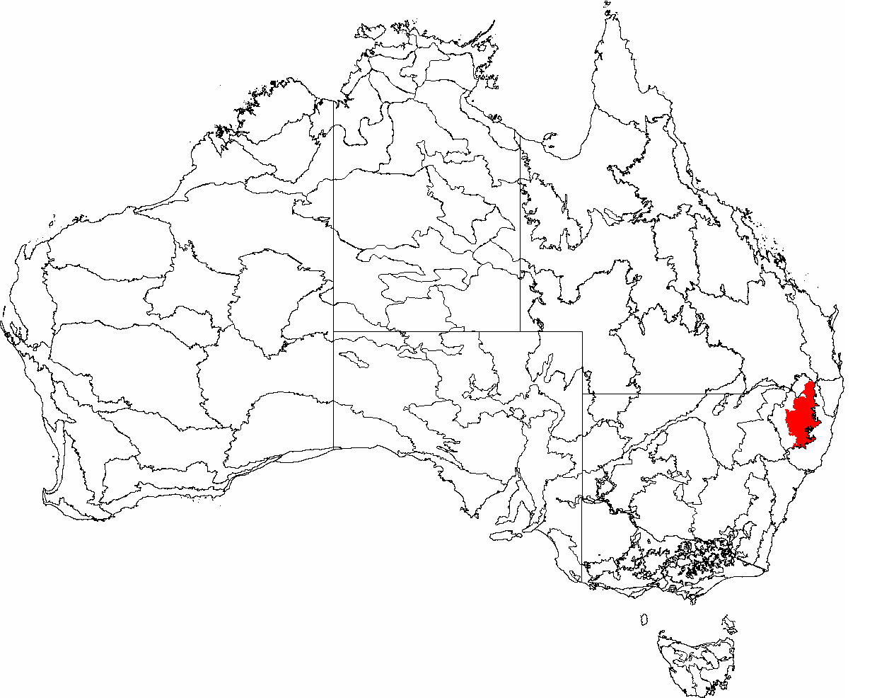 This is a map of the Interim Biogeographic Regionalisation of Australia (IBRA), with state boundaries overlaid. The New Engliand Tablelands region is shown in red.